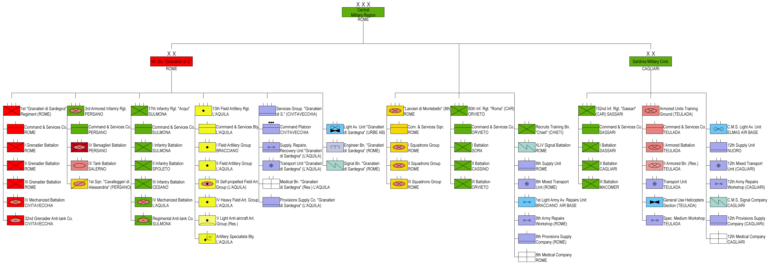 Structure of the Italian Army's Central Military Region in 1974